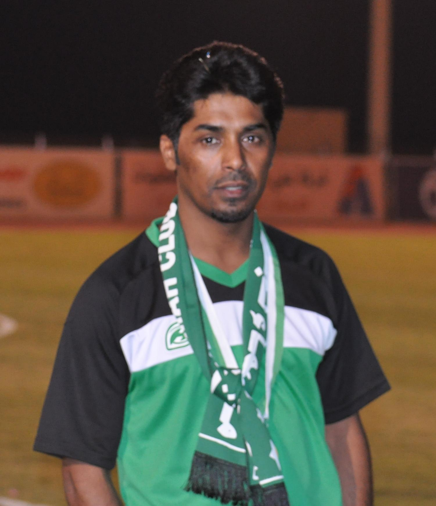 Mansour Al-Mousa is a Saudi Arabian football player.